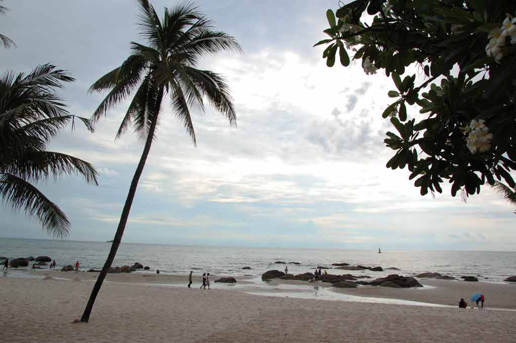 Hua Hin Beach in Cloudy morning. Author : Kriangsak Honchumpae Date Taken : 2006/04/16